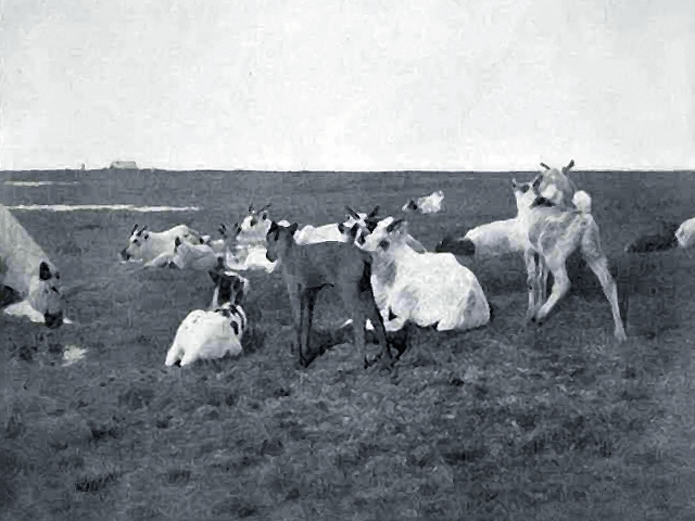 Reindeer fawns Subject: Reindeer--Alaska, Caribou--Alaska Tag: Wildlife